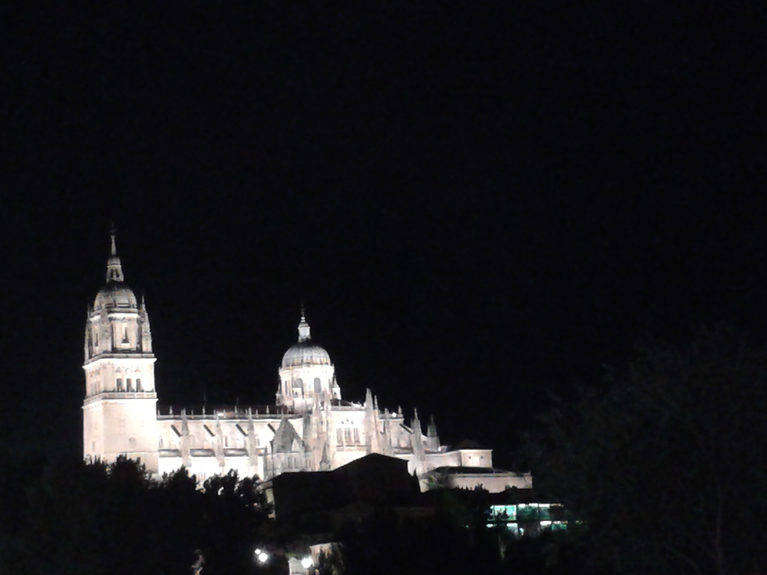 The New Cathedral of Salamanca at night